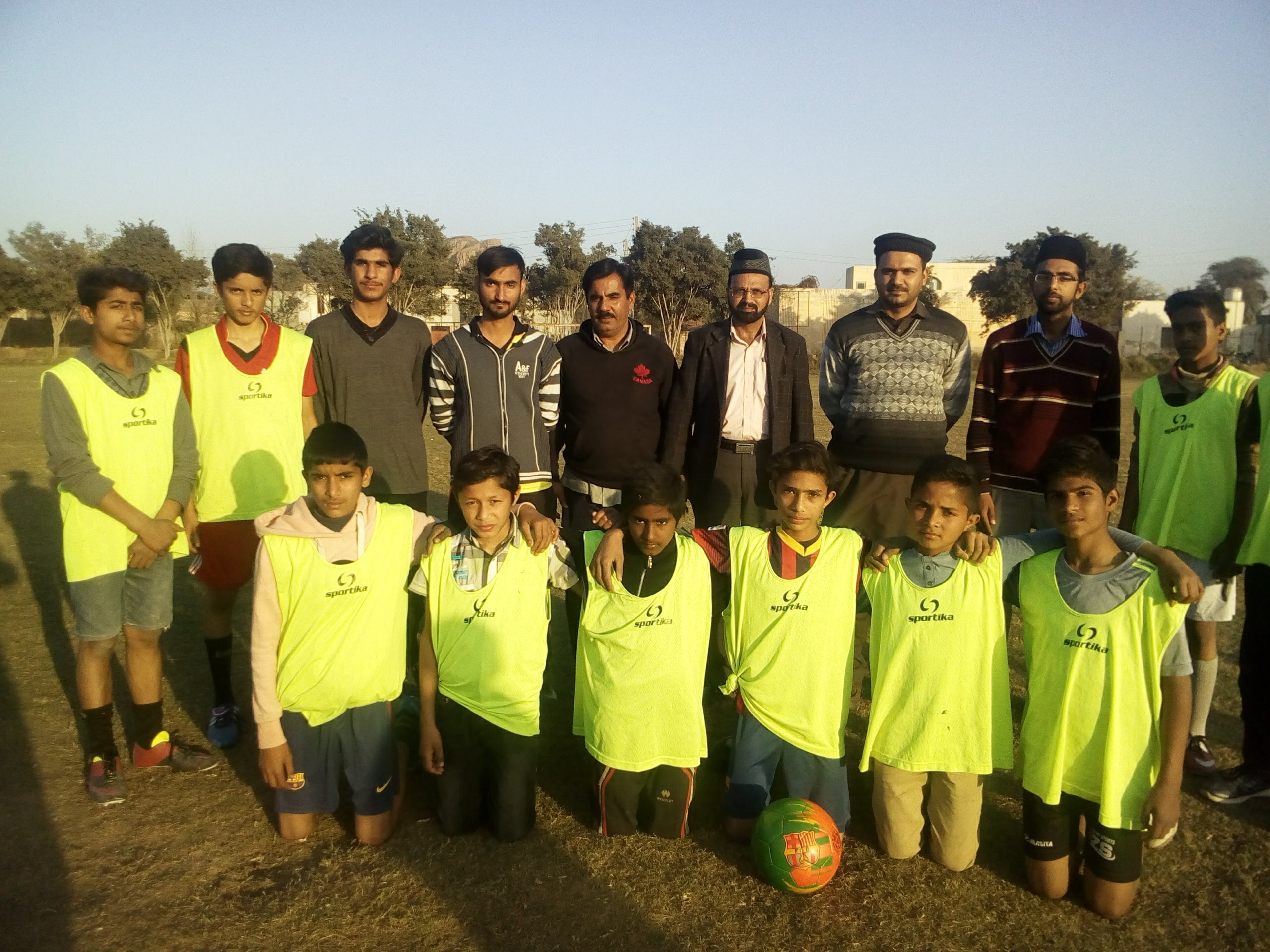 Yaman Soccer League 2 group photo with chief ghest